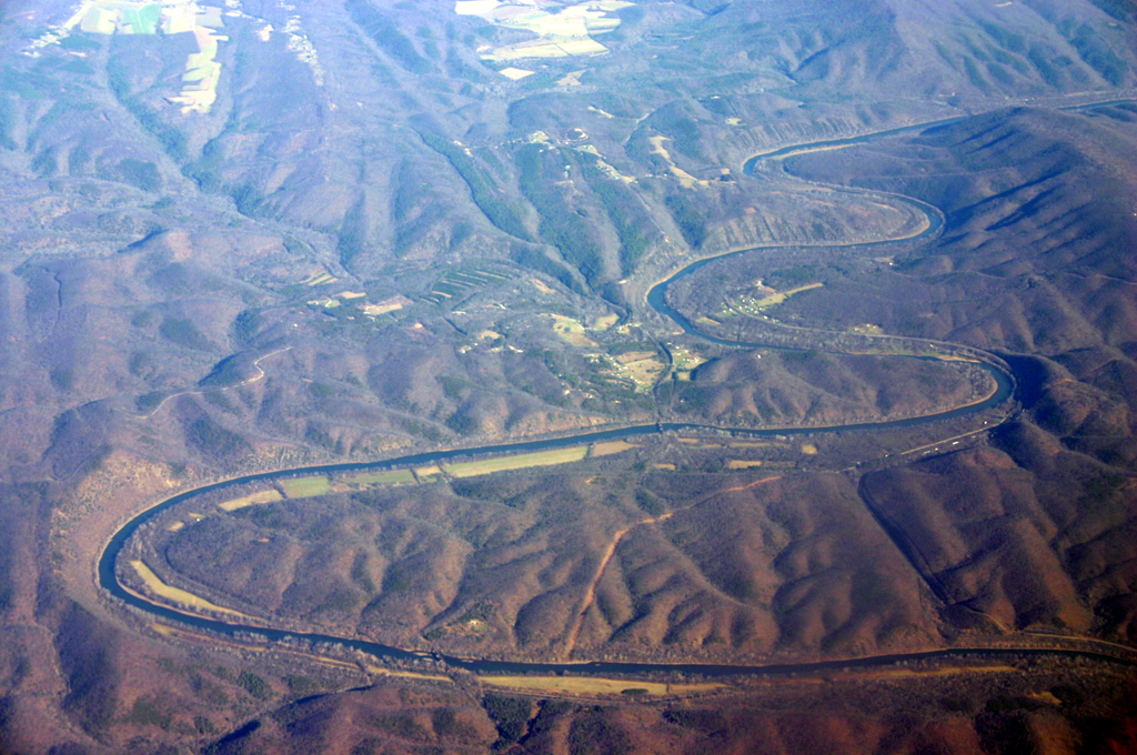 Oblique air photo of the meandering Potomac River at Little Orleans, Maryland (center), facing north. The photo shows Allegany County, Maryland (left), Morgan County, West Virginia (right), Sideling Hill (right), and the Chesapeake and Ohio Canal. Photo taken Dec. 2006. Uploaded by Jim Stuby 17:23, 3 November 2007 (UTC)